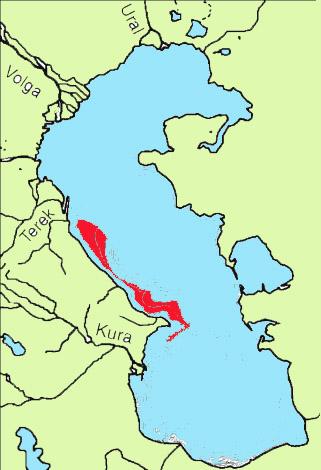 The range of the Short-snout pugolovka (Benthophilus leptorhynchus)